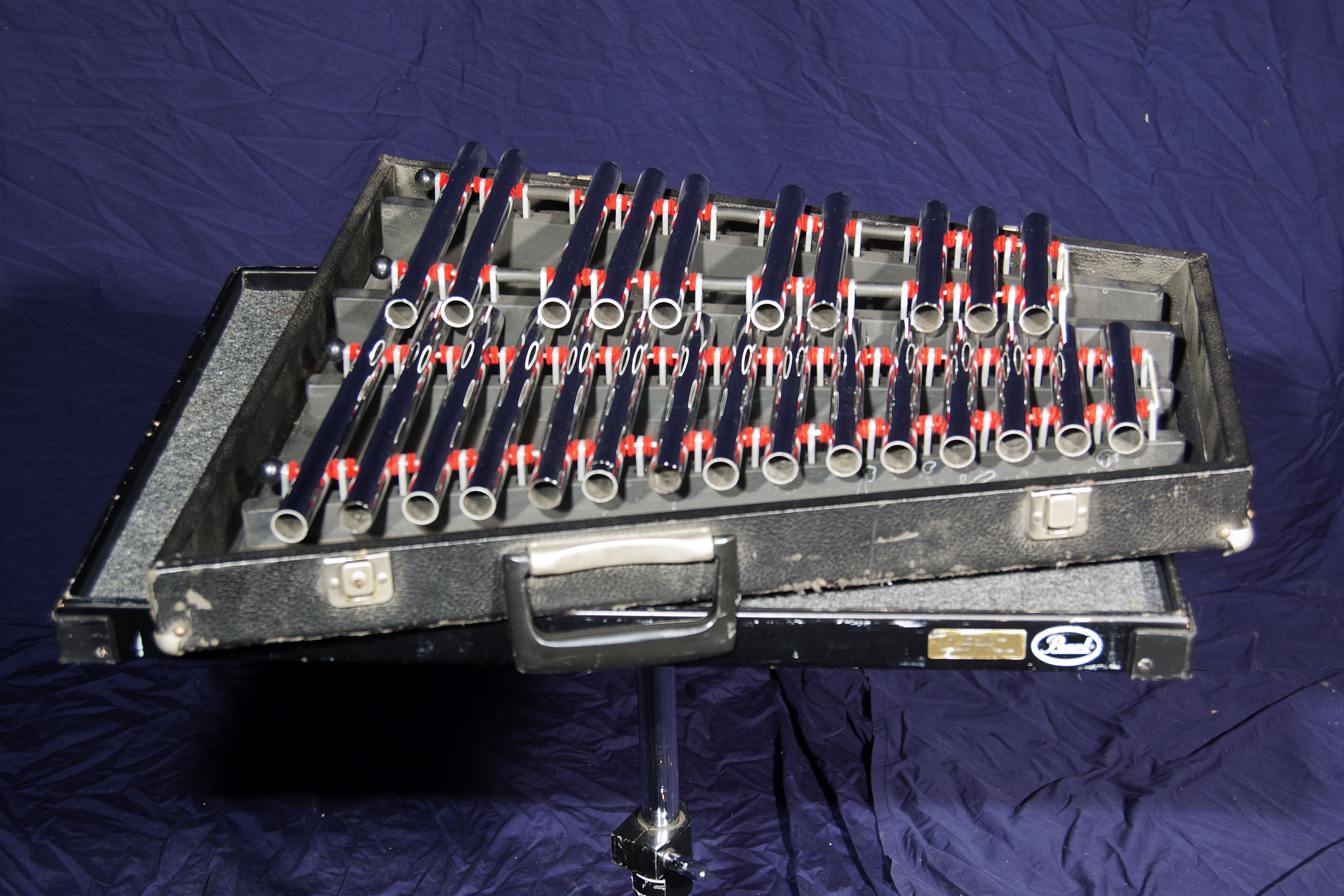 Viscount Bells (from Emil Richards Collection). Range C6-C8.